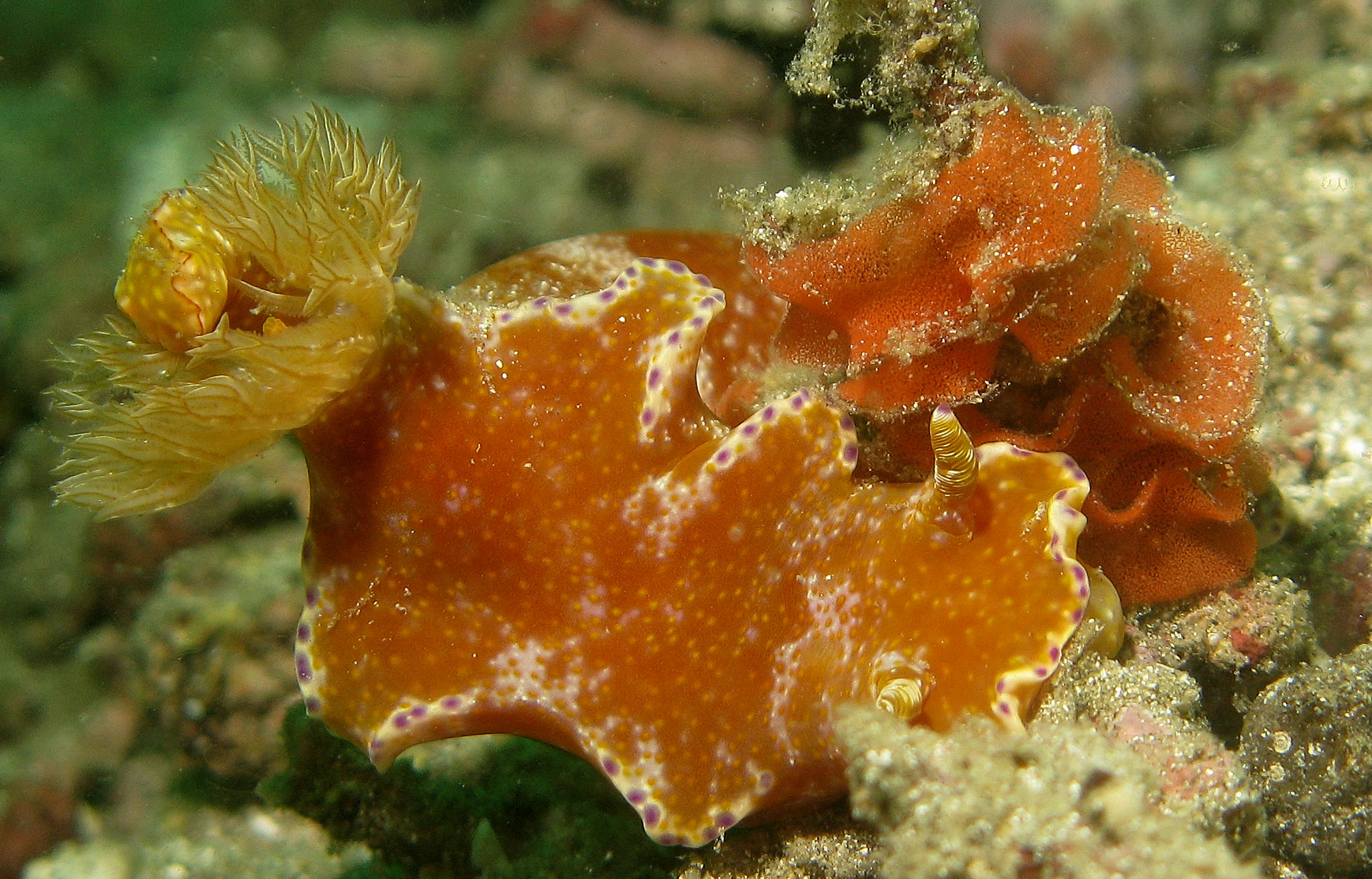 Tne nudibranch seaslug Ceratosoma tenue with egg ribbon; from Lembeh Straits, Indonesia